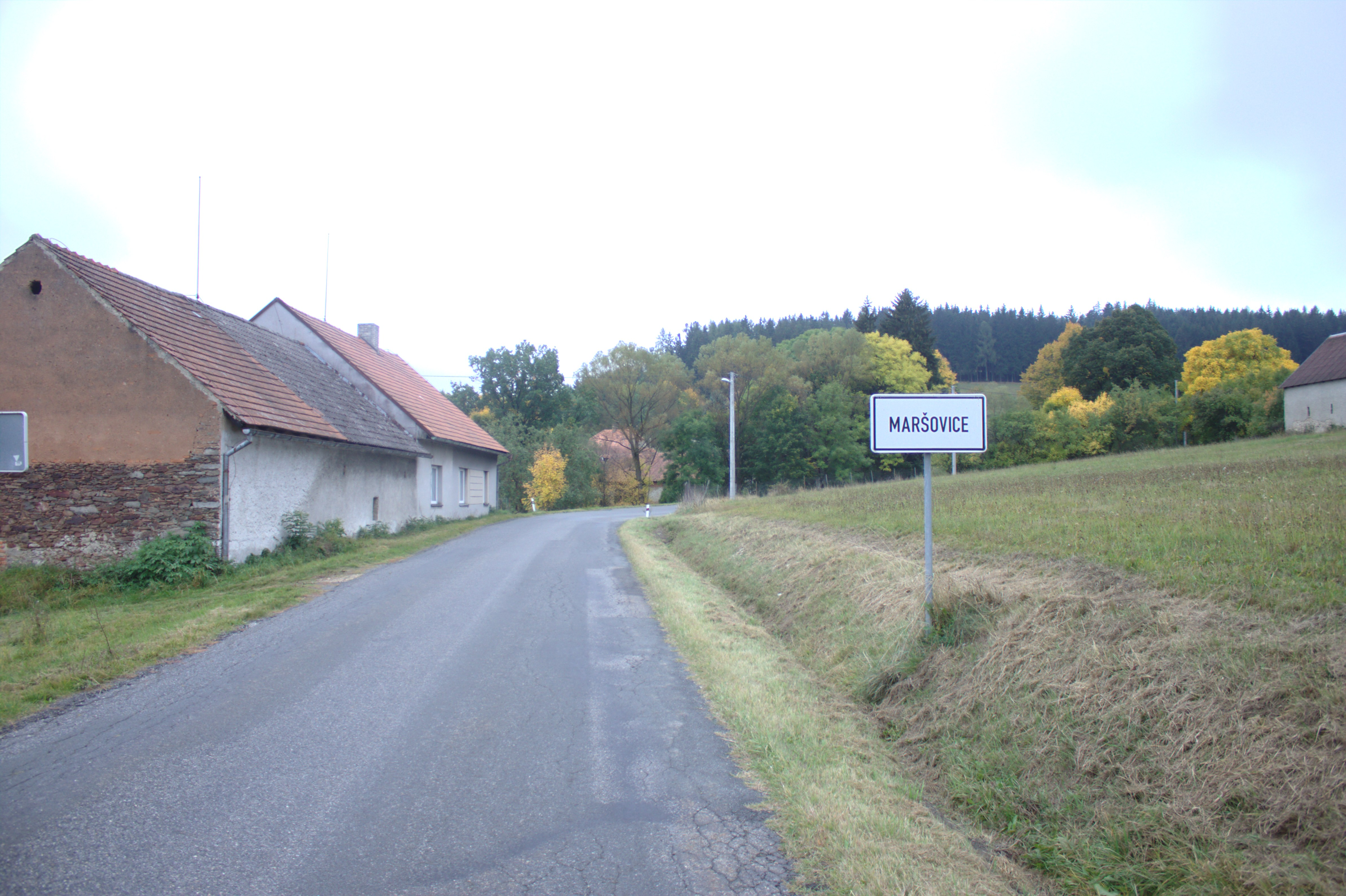 Maršovice town limit, Plzeň Region, CZ